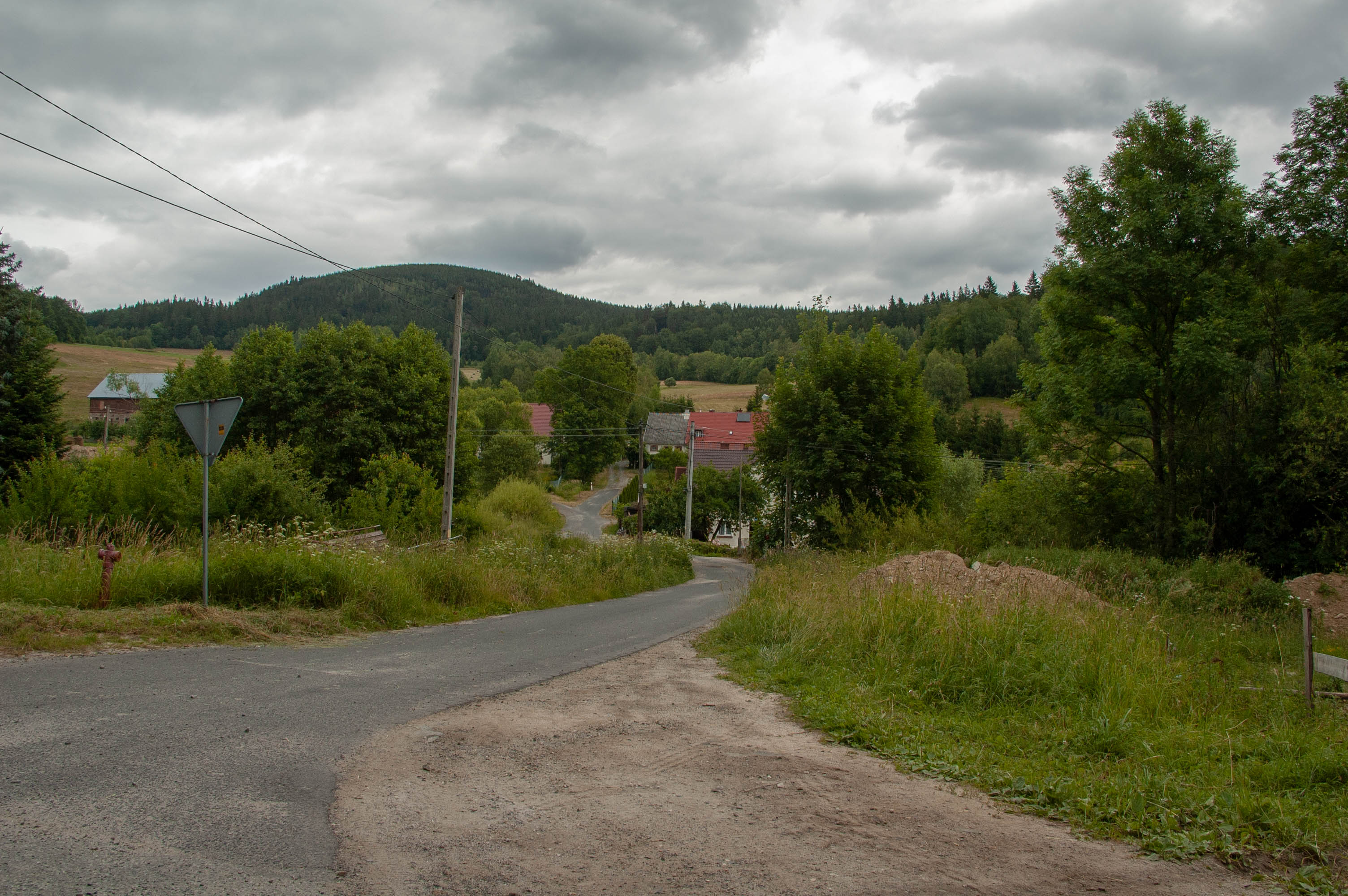 This photograph was created as a part of Wikiexpedition Lower Silesia, a project supported by Wikimedia Poland grant.